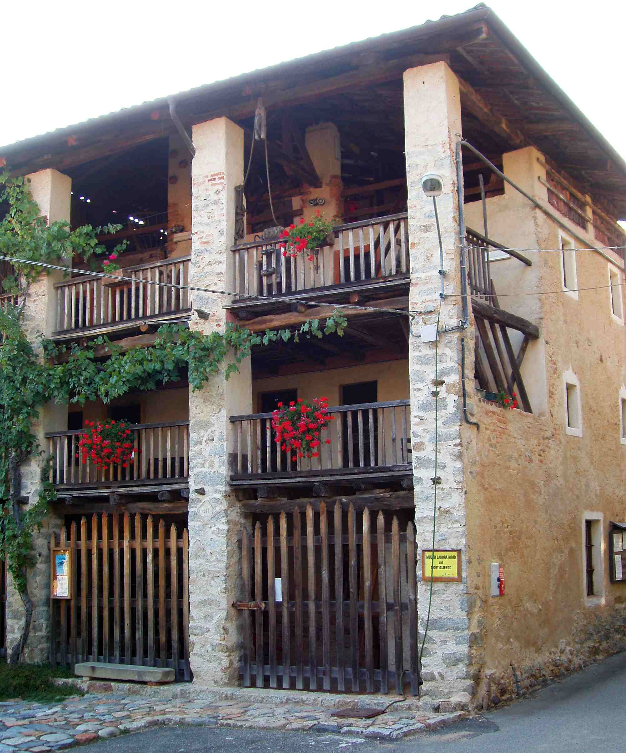 Museoa laboratorio del Mortigliengo (Mezzana Mortigliengo, BI, Italy)